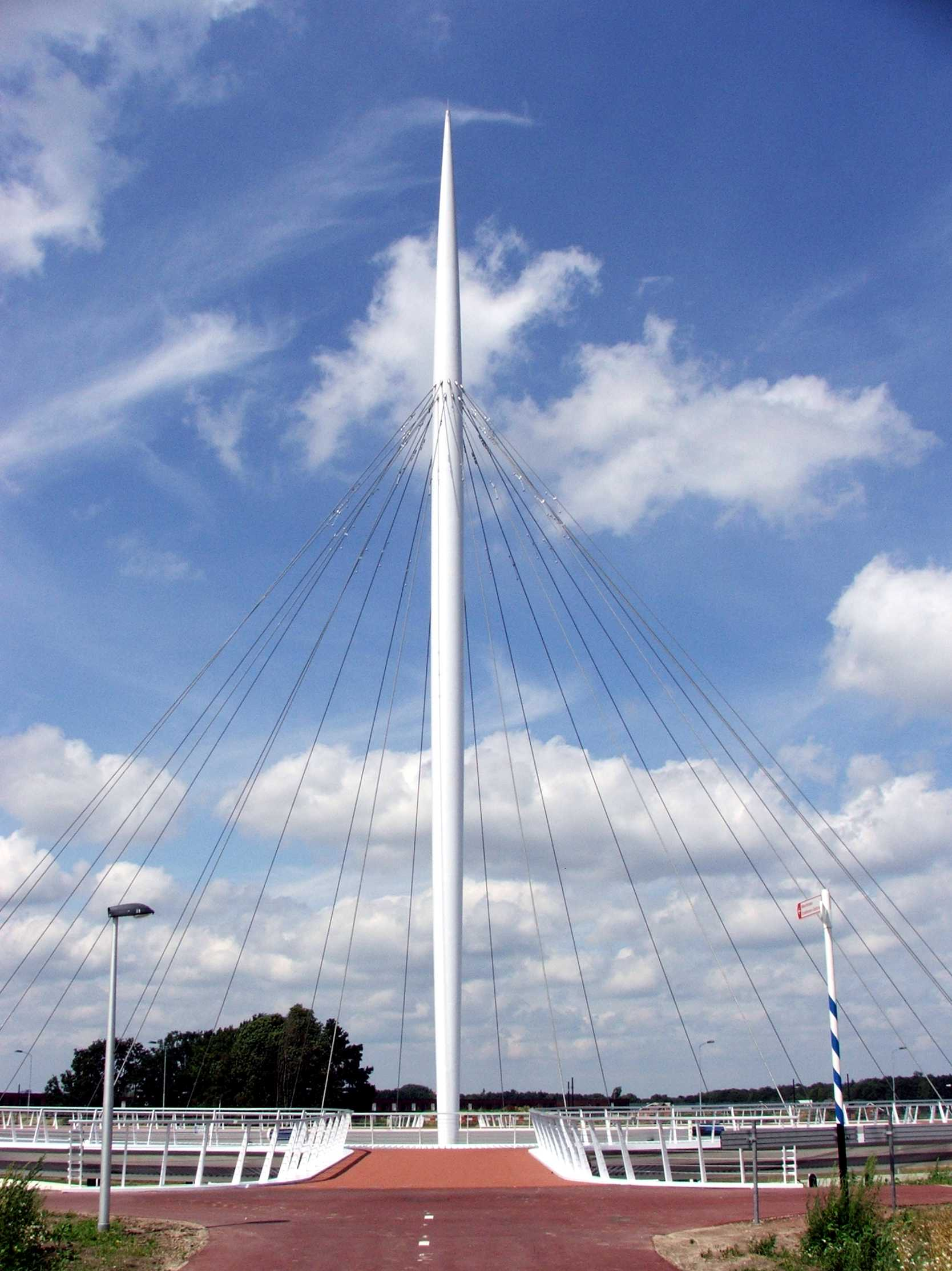 Hovenring: Elevated cyclists' roundabout between Eindhoven and Veldhoven (Netherlands).